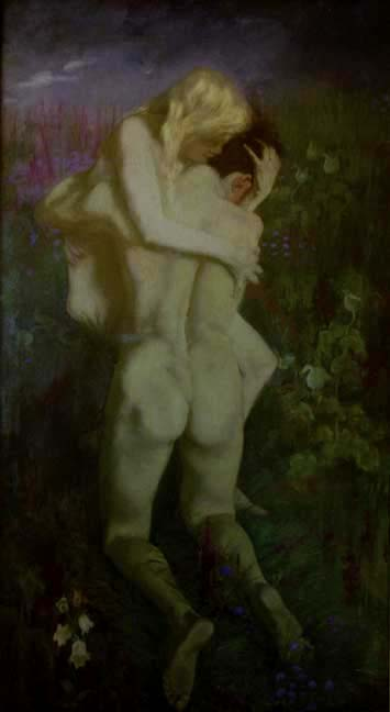 Anna Costenoble: Tristan and Isolde. Germany, 1900. Oil on canvas, signed. This painting was Costenobles entry in the exhibition of the Berlin Secession in 1900; there are the reminants of a sticker from that exhibition on the stretcher. 70 X 38.5 inches.